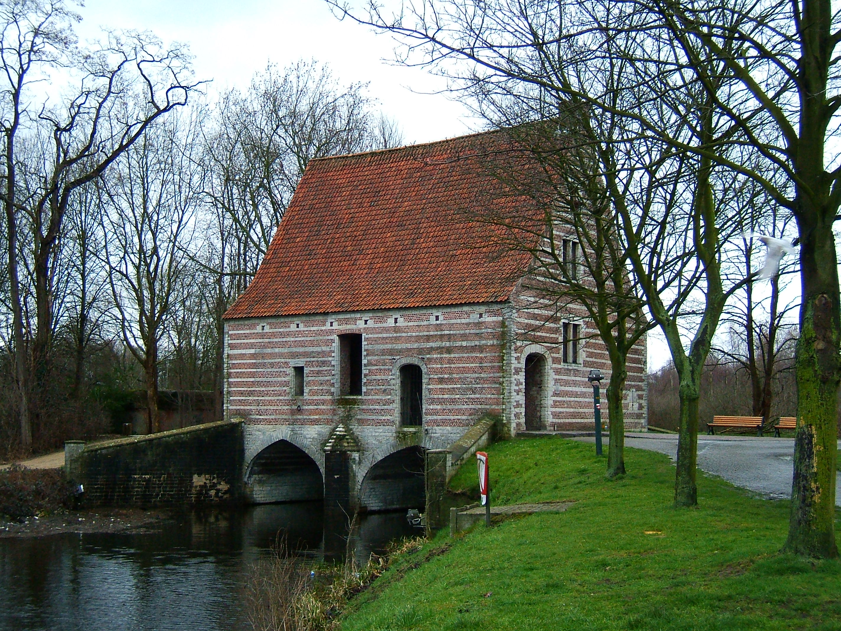 Spui on the Nete in Lier